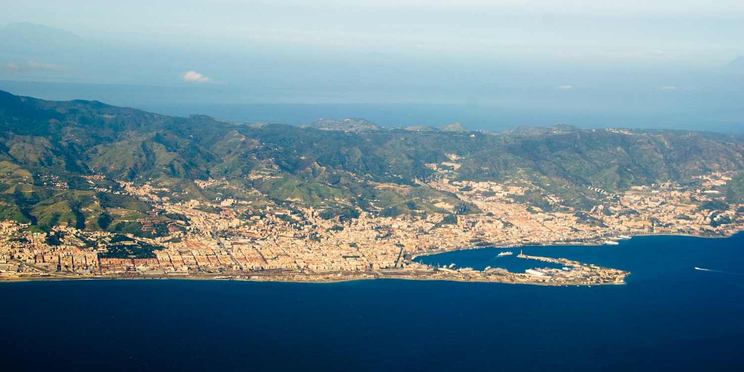 Map it: Google Earth | Street | Satellite | Hybrid | Nautical